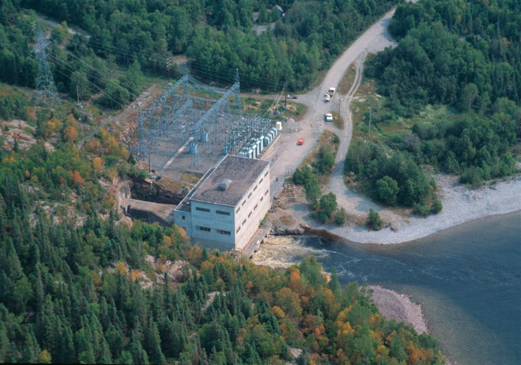 mechanical energy is converted into an electrical energy using water